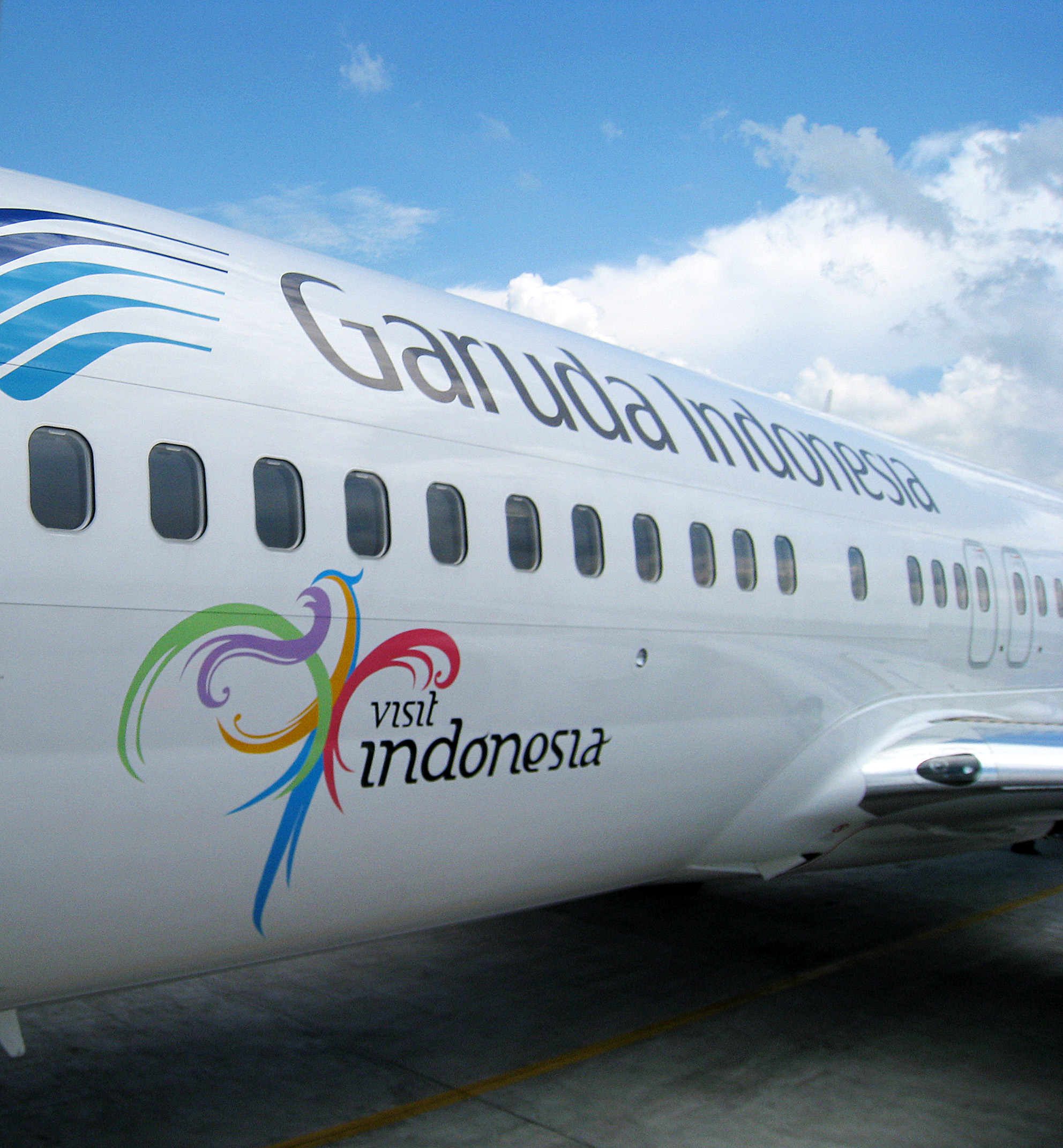 Garuda Indonesia airplane with Visit Indonesia logo